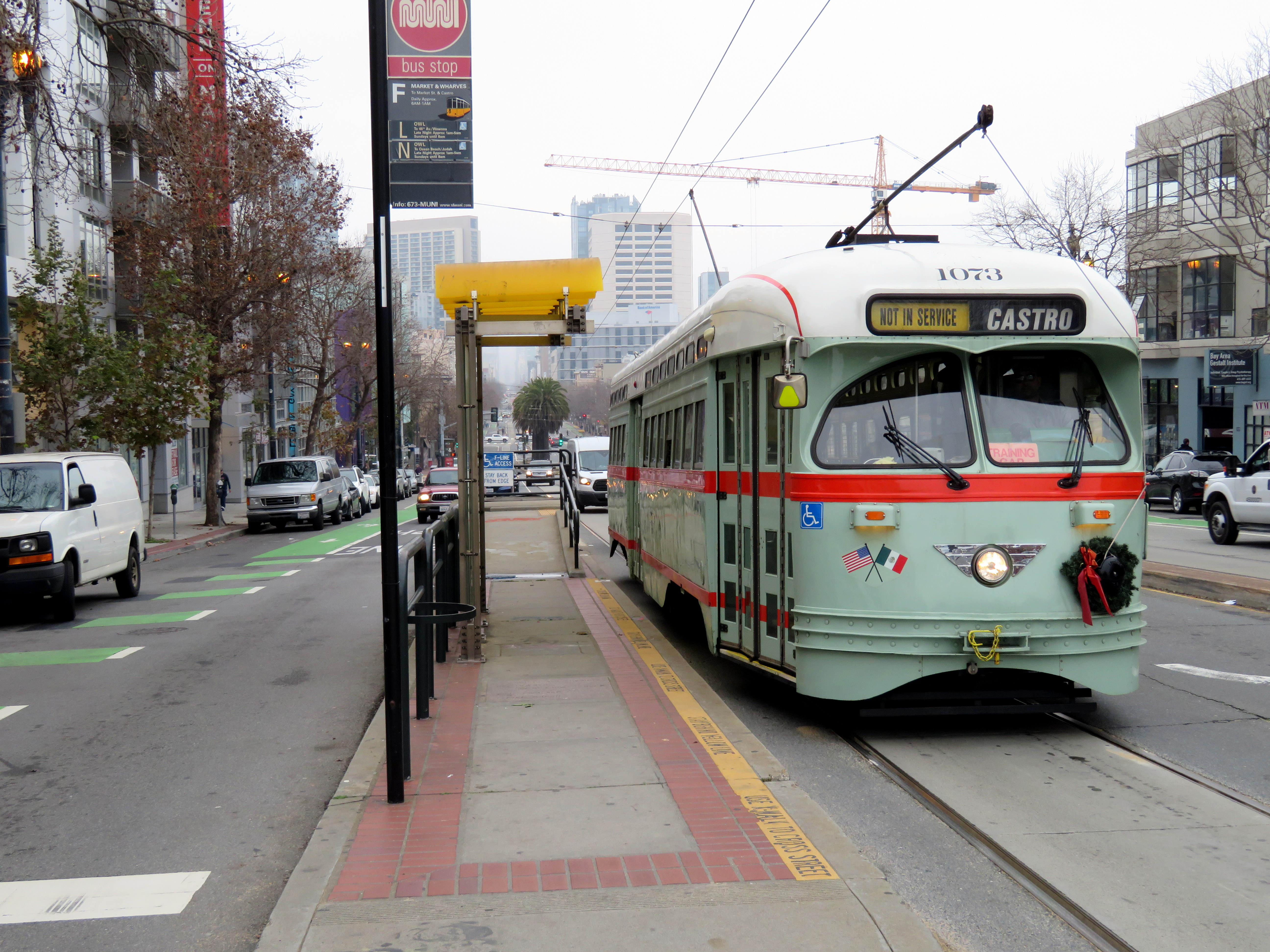 Muni 1073 at Market and Laguna in January 2018